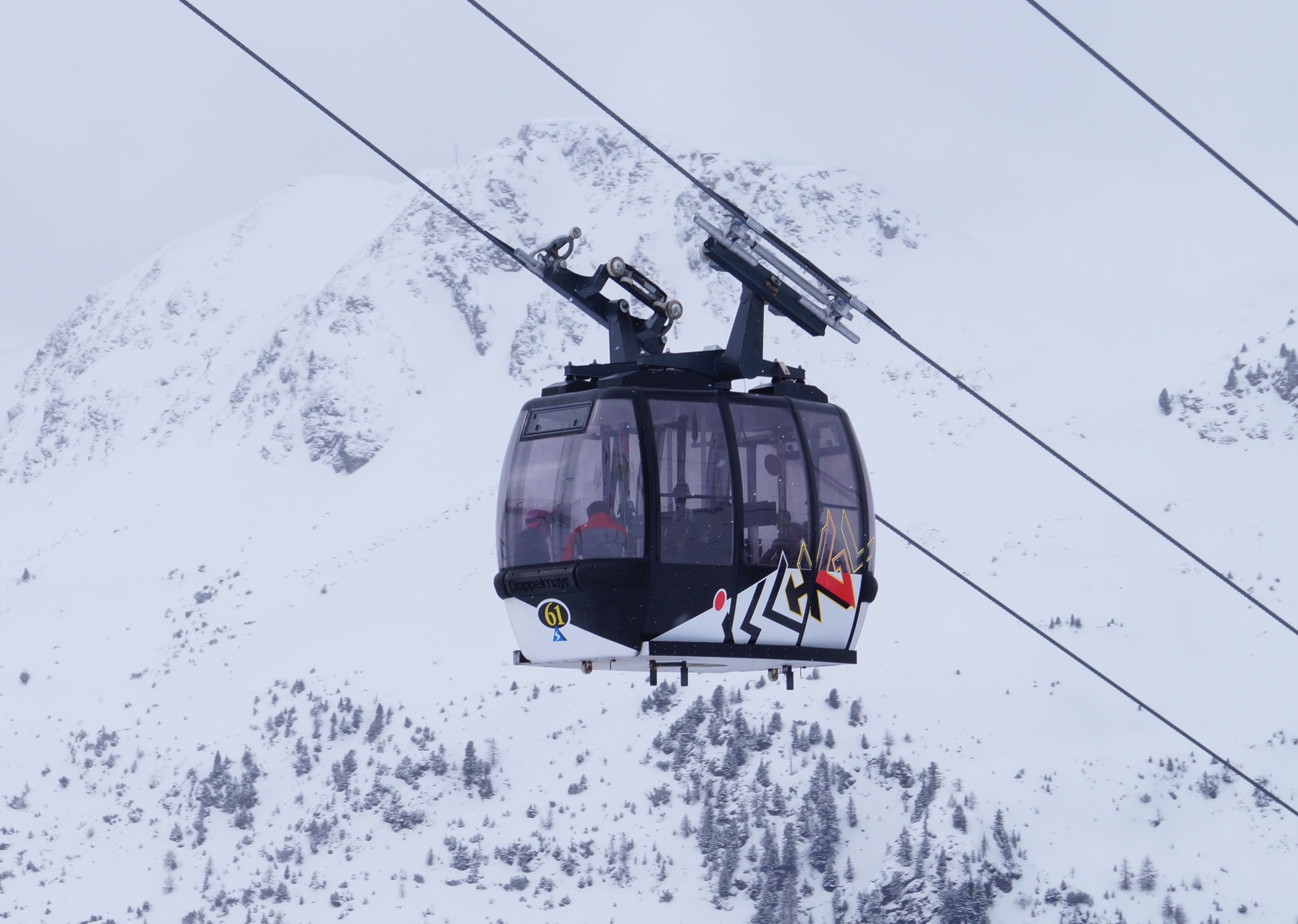 A 24 people cablecar of the Silvrettabahn in Ischgl.